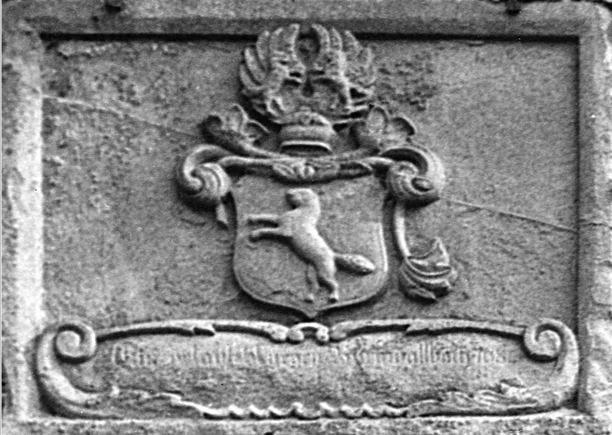 Photo of Bibra Coat of Arm at Brennhausen - Stone notes the estate coming into the Bibra Family in 1681Rheinhold and Die Kunstdenkmäler Des Königreichs Bayern, Unter-Franken, XIII. Bez.-Amt Königshofen states that the description states: "Eingetauscht gegen Burgwallbach 1681, Restauriert 1861" (“Exchanged for the castle Burgwallbach in 1681, renovated in 1861.”) unclear if the stone or castle was renovated in 1861